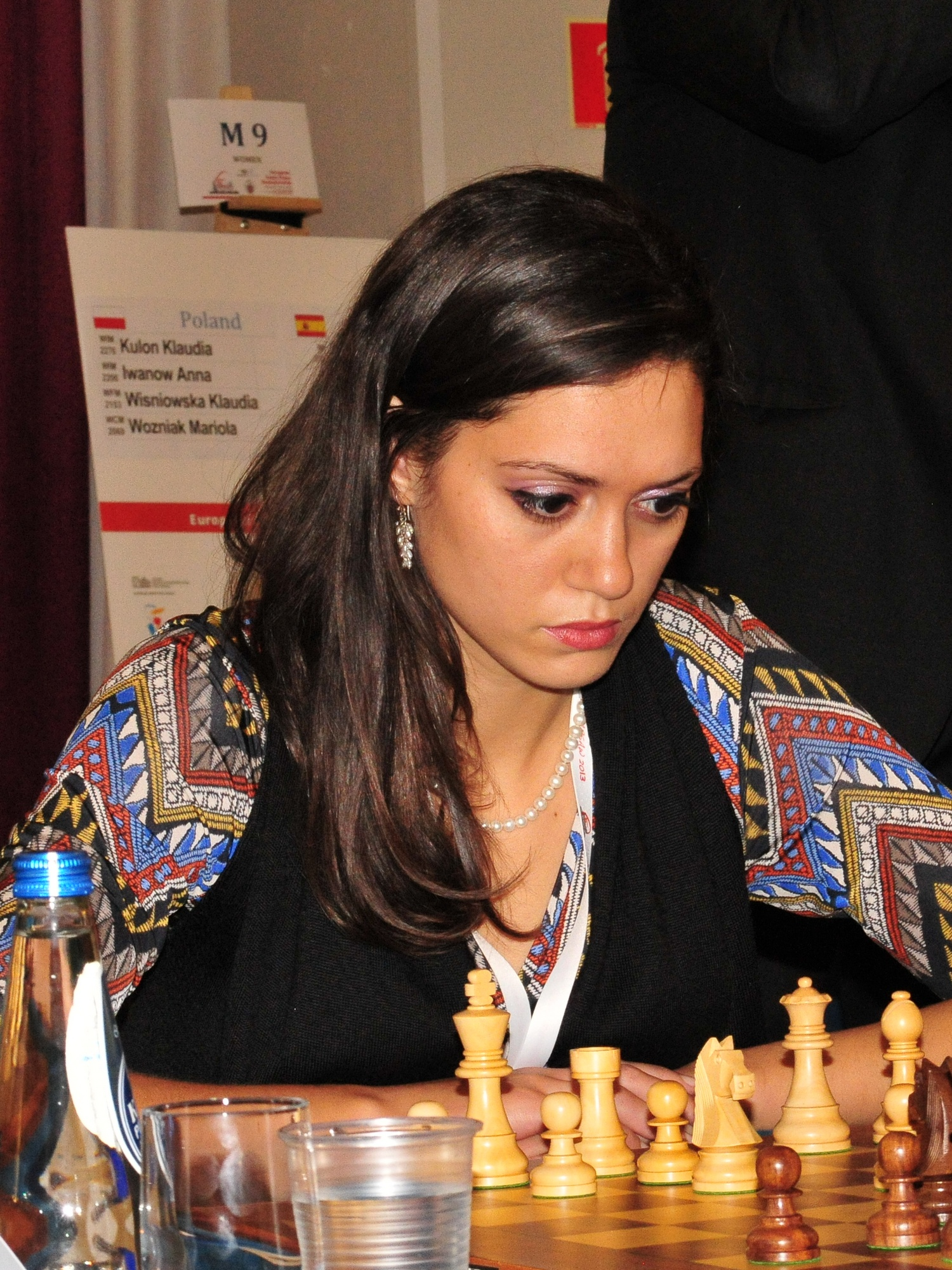 WIM Natacha Benmesbah, European Chess Team Championship Warsaw 2013